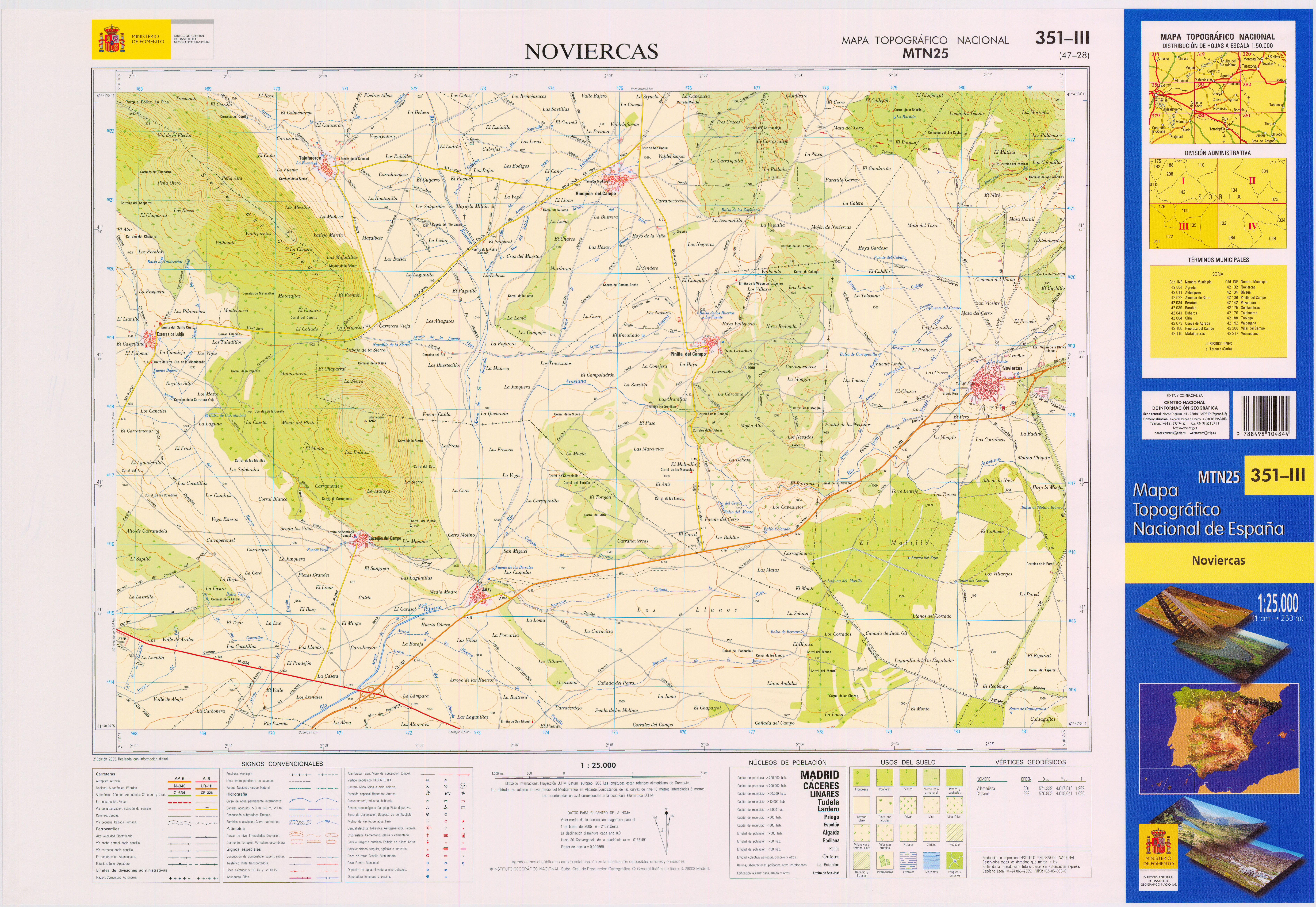 Fragment 0351c3 of the National Topographic Map of Spain in 2005 at a scale of 1:25000 printed and scanned with a resolution of 250 ppi. It shows Noviercas.